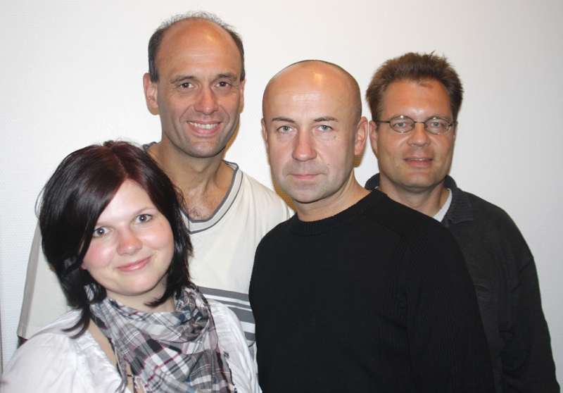 The photo shows the band in the year 2010.